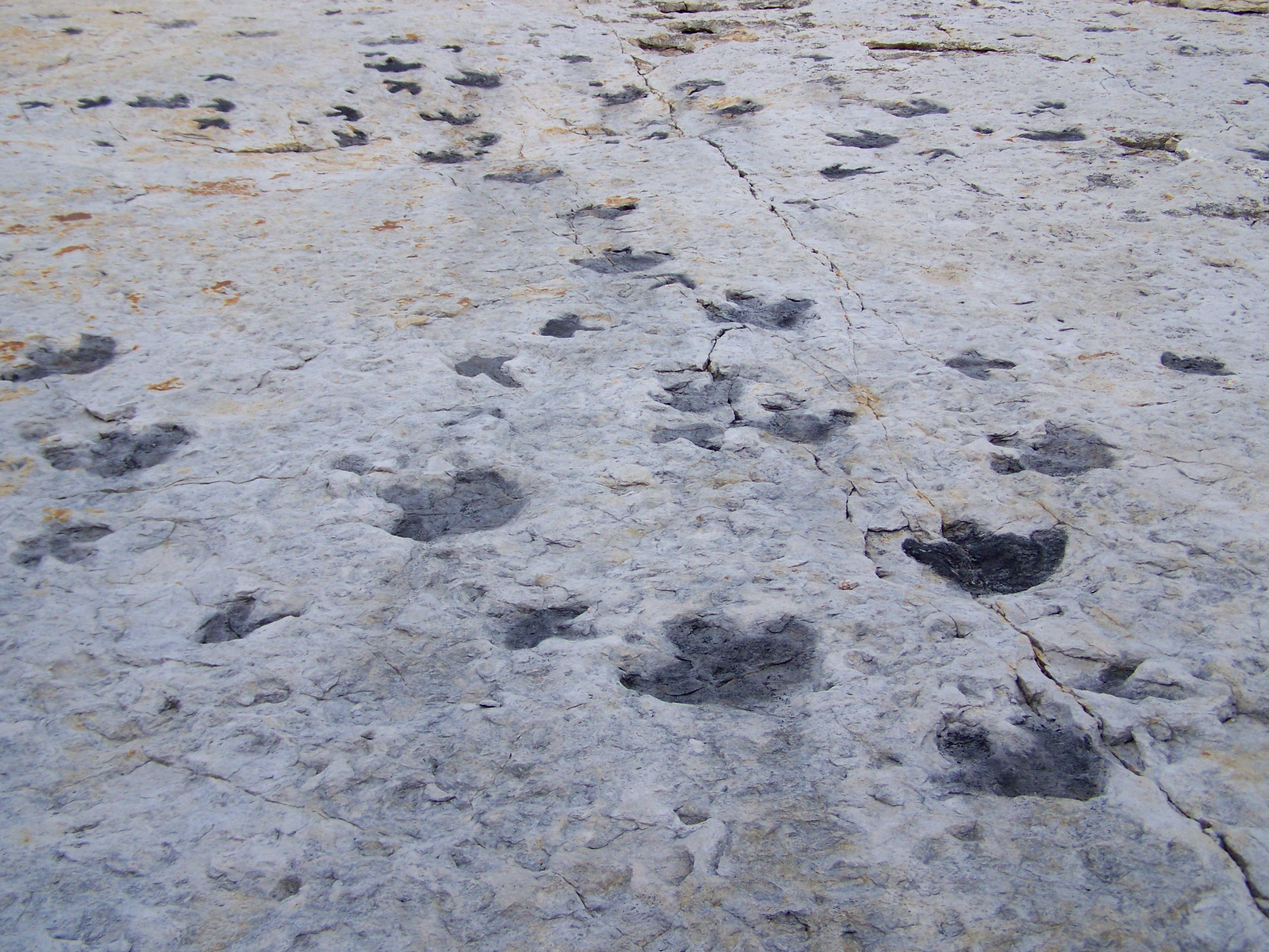 Tracks in rock at Dinosaur Ridge, Morrison Fossil Area, Jefferson County, Colorado.